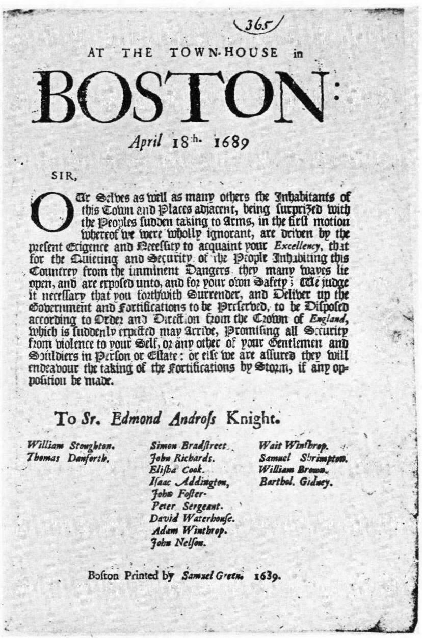 Demand for Surrender of Sir Edmund Andros. From Wikisource:The Founding of New England, by James Truslow Adams